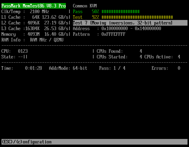 MemTest86 V8.3 Pro running in a virtual machine